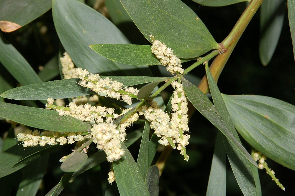 Acacia longifolia known from Australia, Botanical Garden, Berlin, Germany